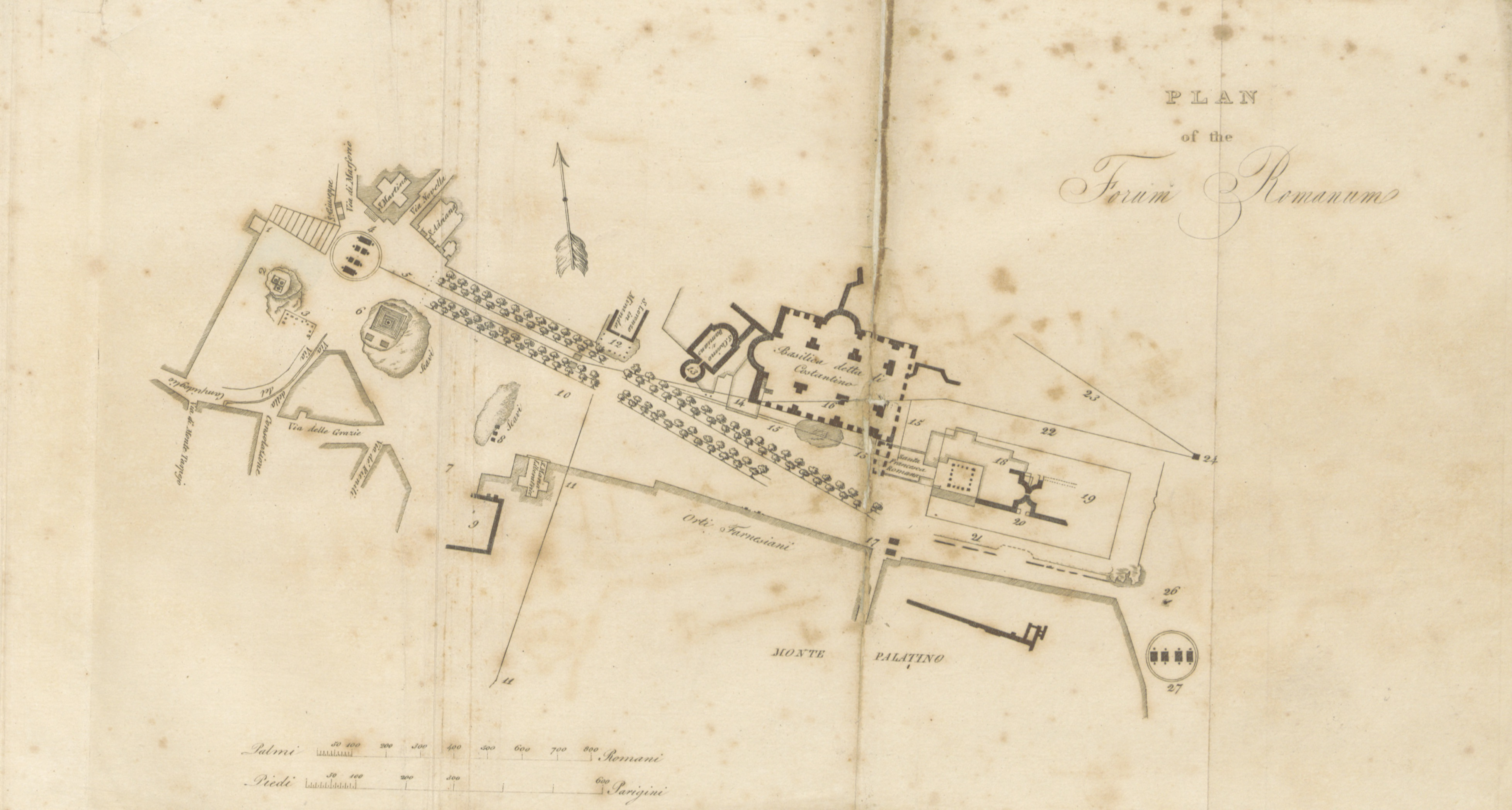 Page 149 of 'Travels in Europe between the years 1824 and 1828 ... Comprising an historical account of Sicily, etc. [With “Second Supplement to the Addenda.”]